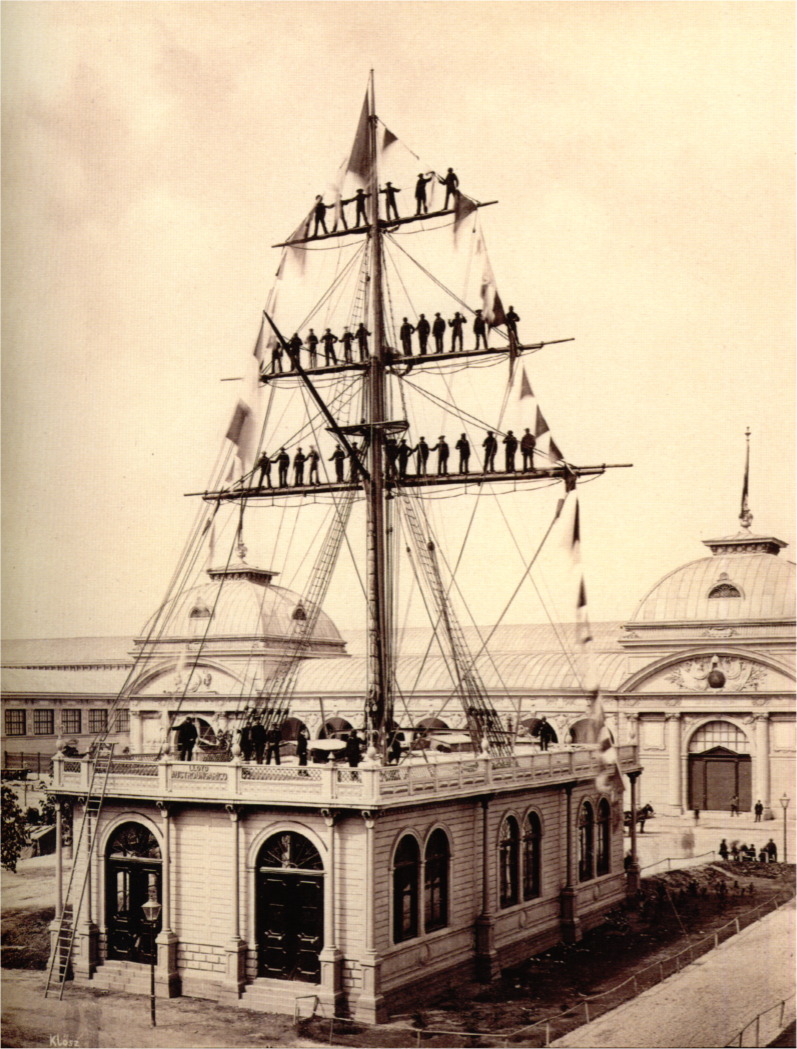 Pavillon of the Austro-hungarian Lloyd on the world's fair 1873 in Vienna Removed caption: Nr.144. Oesterreichisch-ungarischer Lloyd. Eröffnungsparade English translation: No.144. Austro-hungarian Llyod. Opening parade